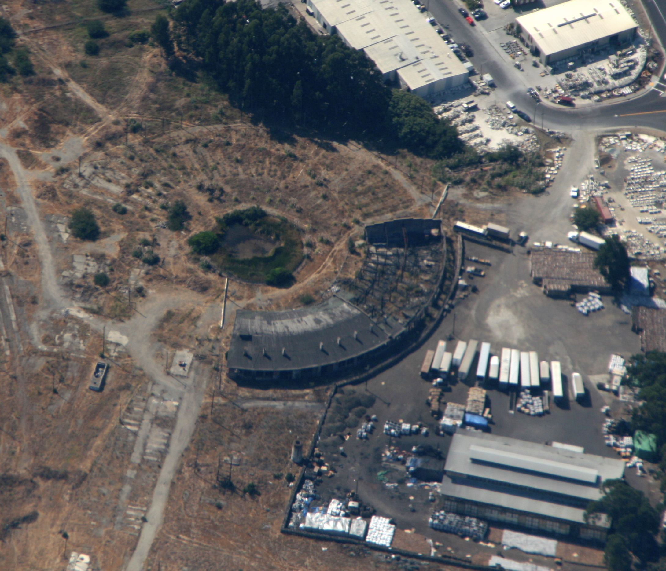 Here's what's left of the roundhouse next to the railroad switchyard south of San Francisco. From the air you can make out the shape of the roundhouse, and guess what it was. From the ground it's not so easy.